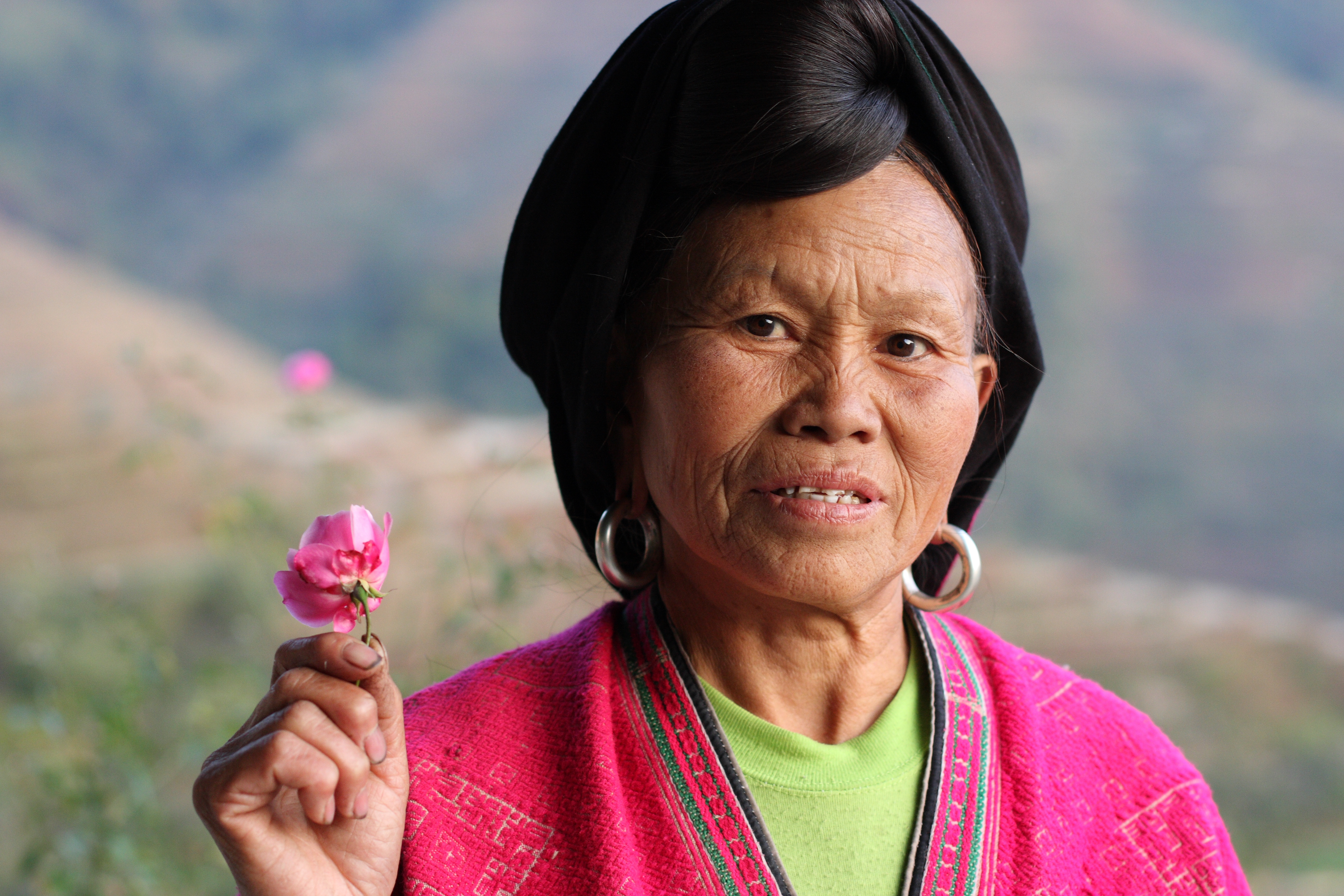 Tiantouzhai, Longji Terraces, China